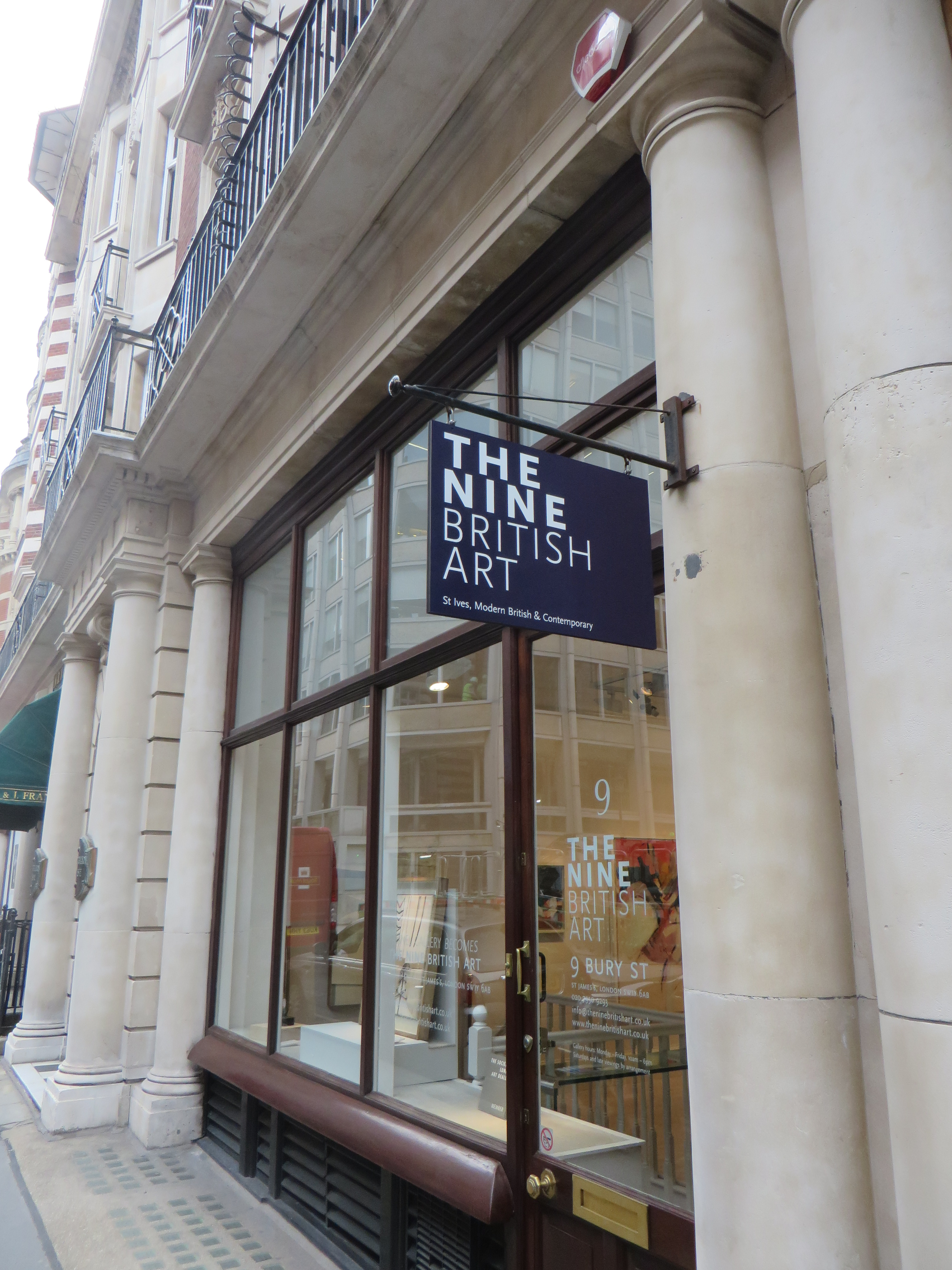 The Nine British Art, art gallery at 9 Bury Street, London, St James's, central London, England. Street view from the south.